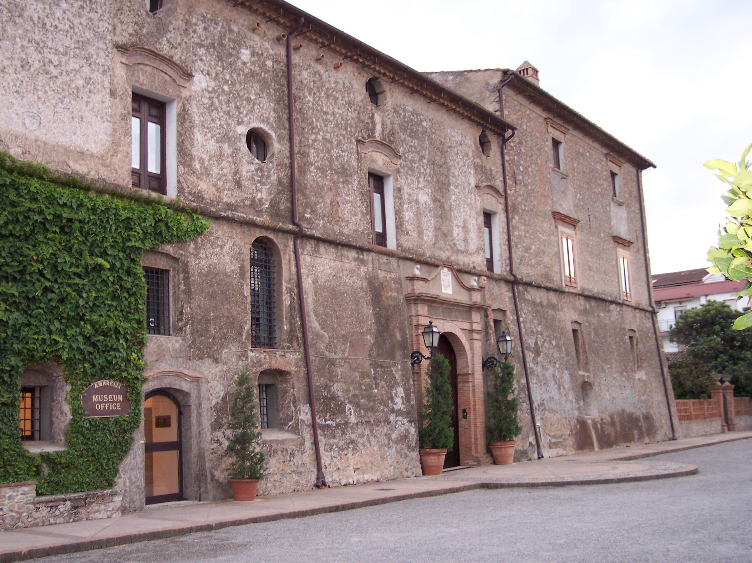 Building of the Amarelli liquorice museum, Rossano (CS), contrada Amarelli.